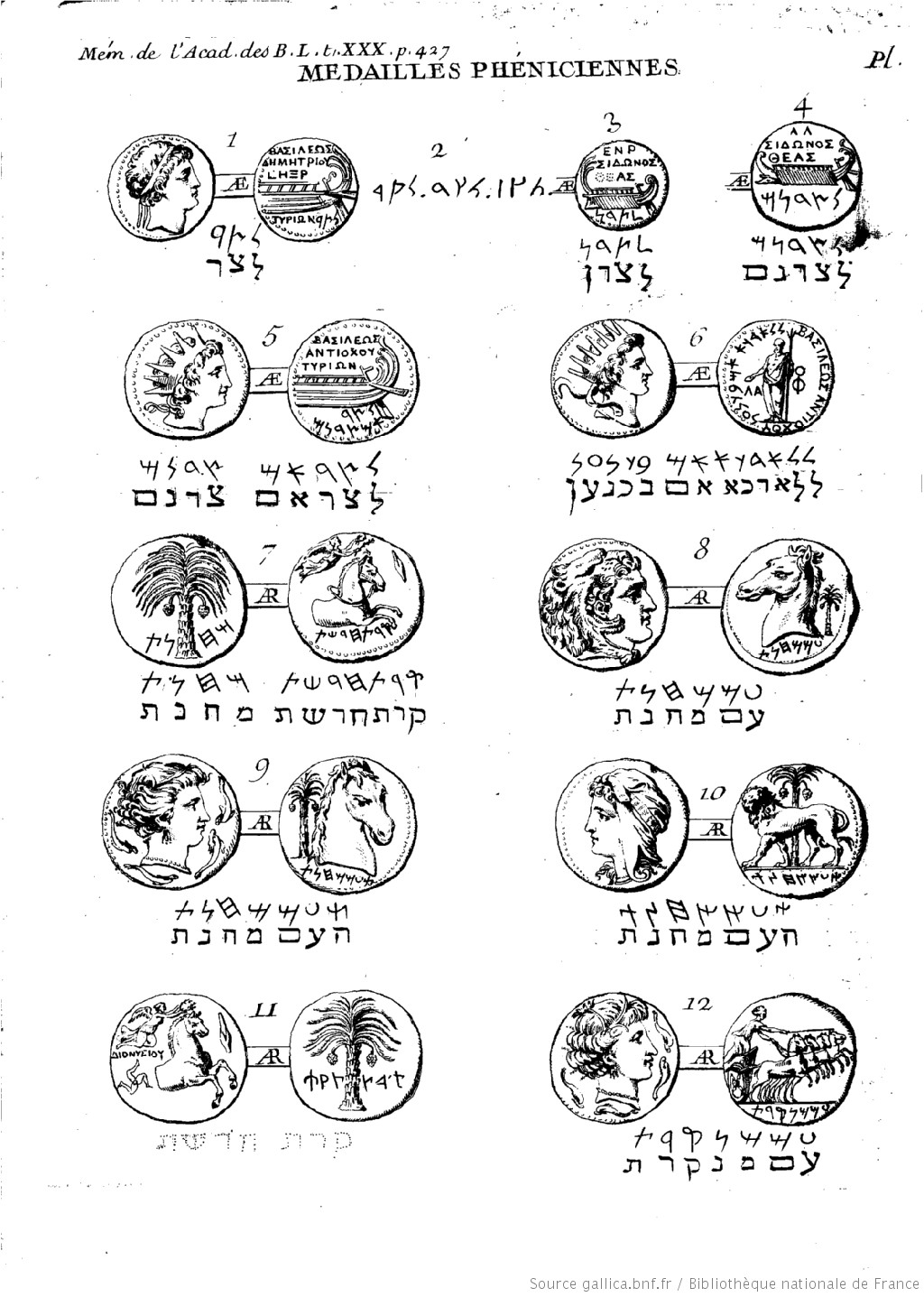 Barthélémy Médailles phéniciennes